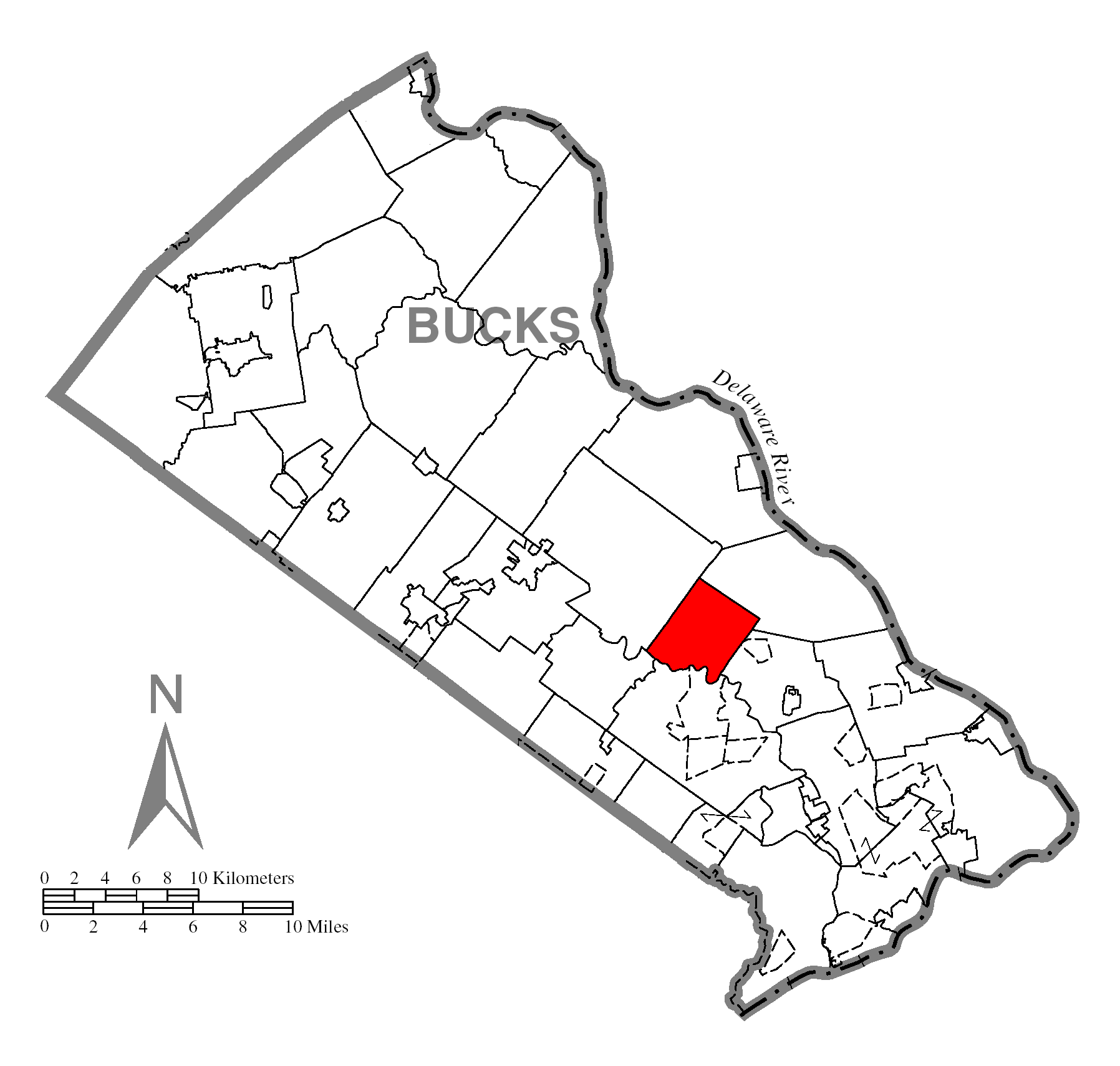 A map of Bucks County showing Wrightstown Township, Pennsylvania (alternate) highlighted on the map.